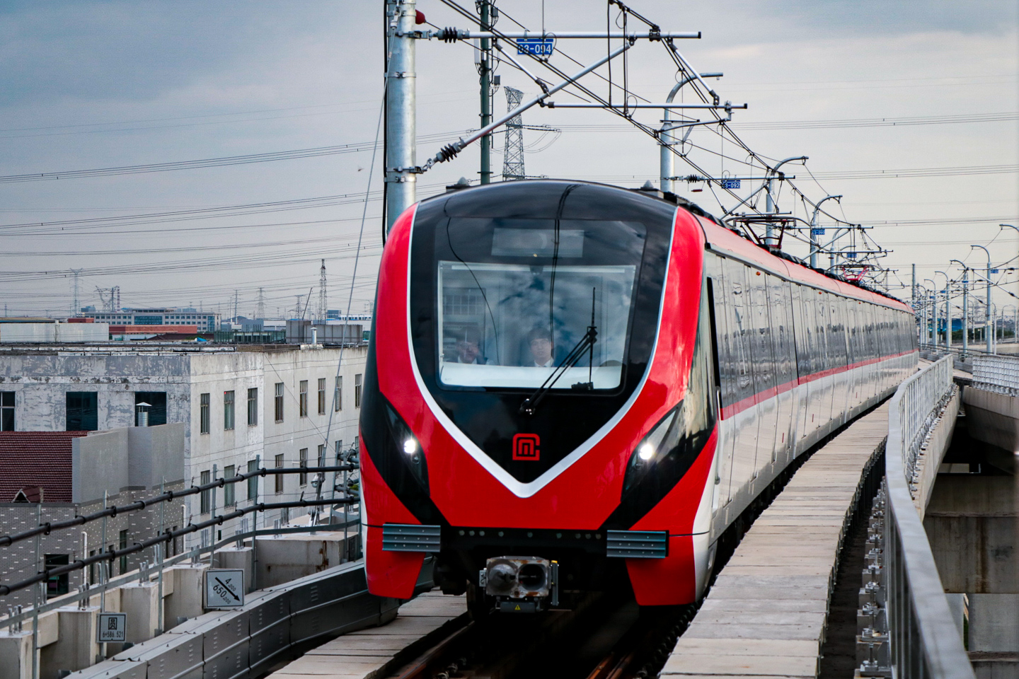 Rolling stock of Changzhou Metro Line 1